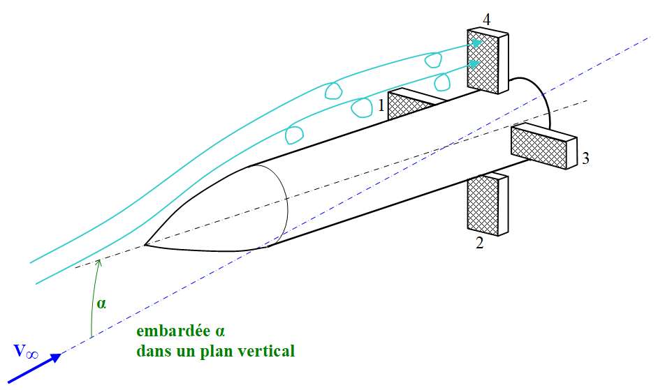 Rocket in marked incidence with 4 grid fins. We observe the masking of the panel "downwind", this masking occurring at marked incidences.